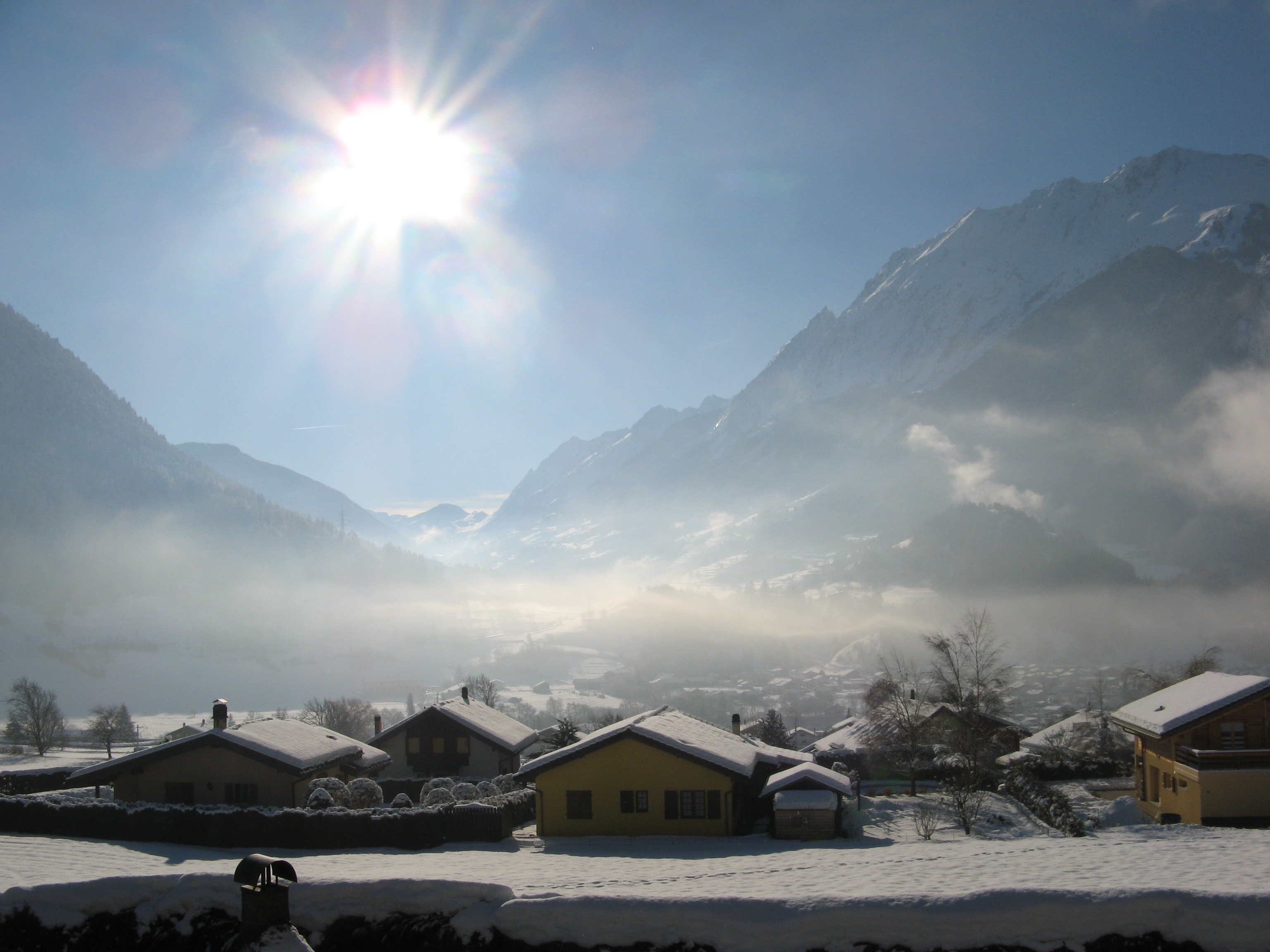 Vollèges, Valais, Switzerland